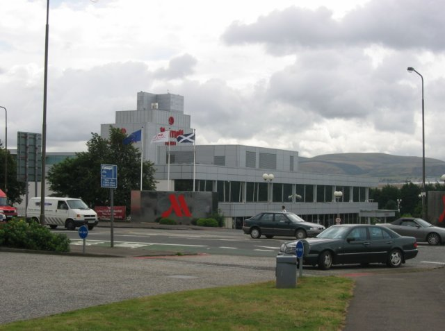 Western approaches to Edinburgh. Busy junction on the A8 entering Edinburgh from the west. There has been a lot of recent development here; it's a mass of tin shed shopping as well as hotels and some residential areas.